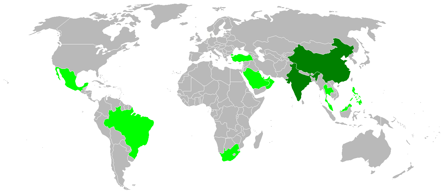 Green: Newly industrialized countries China and India (in dark green) may not fit the Human Development Index, but they hold the status of "great power", and are emerging economic powerhouses.